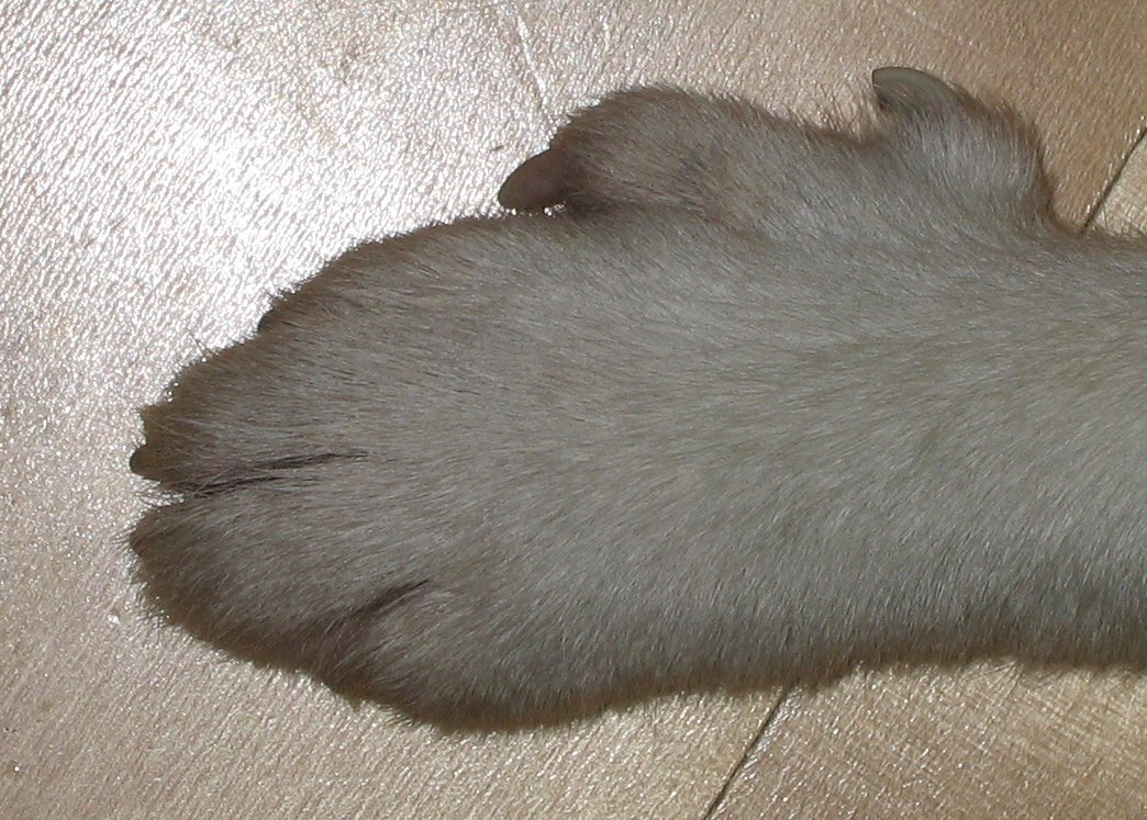 Foot of a Norwegian Lundehund. Picture taken by myself, User:ZorroIII, in 2005.